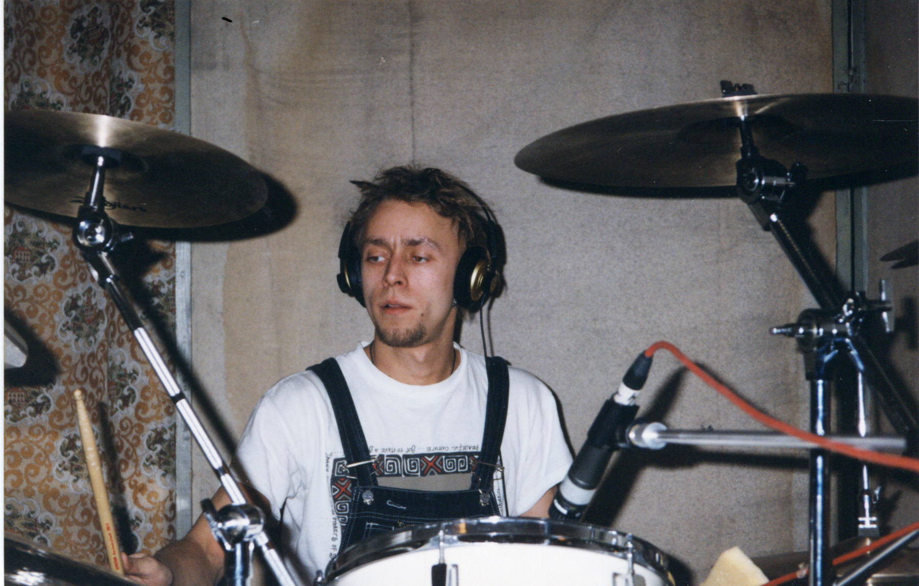 HanutinV